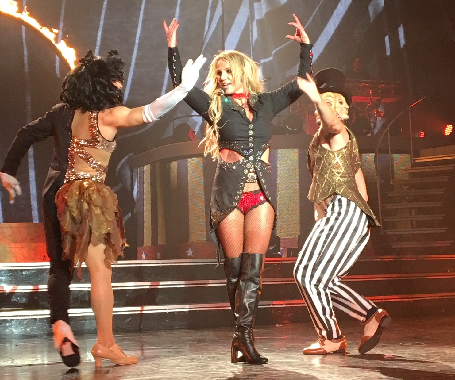 This file has been extracted from another file: Britney Spears 'Piece of Me' - Las Vegas IMG 6572 (27442024211).jpg